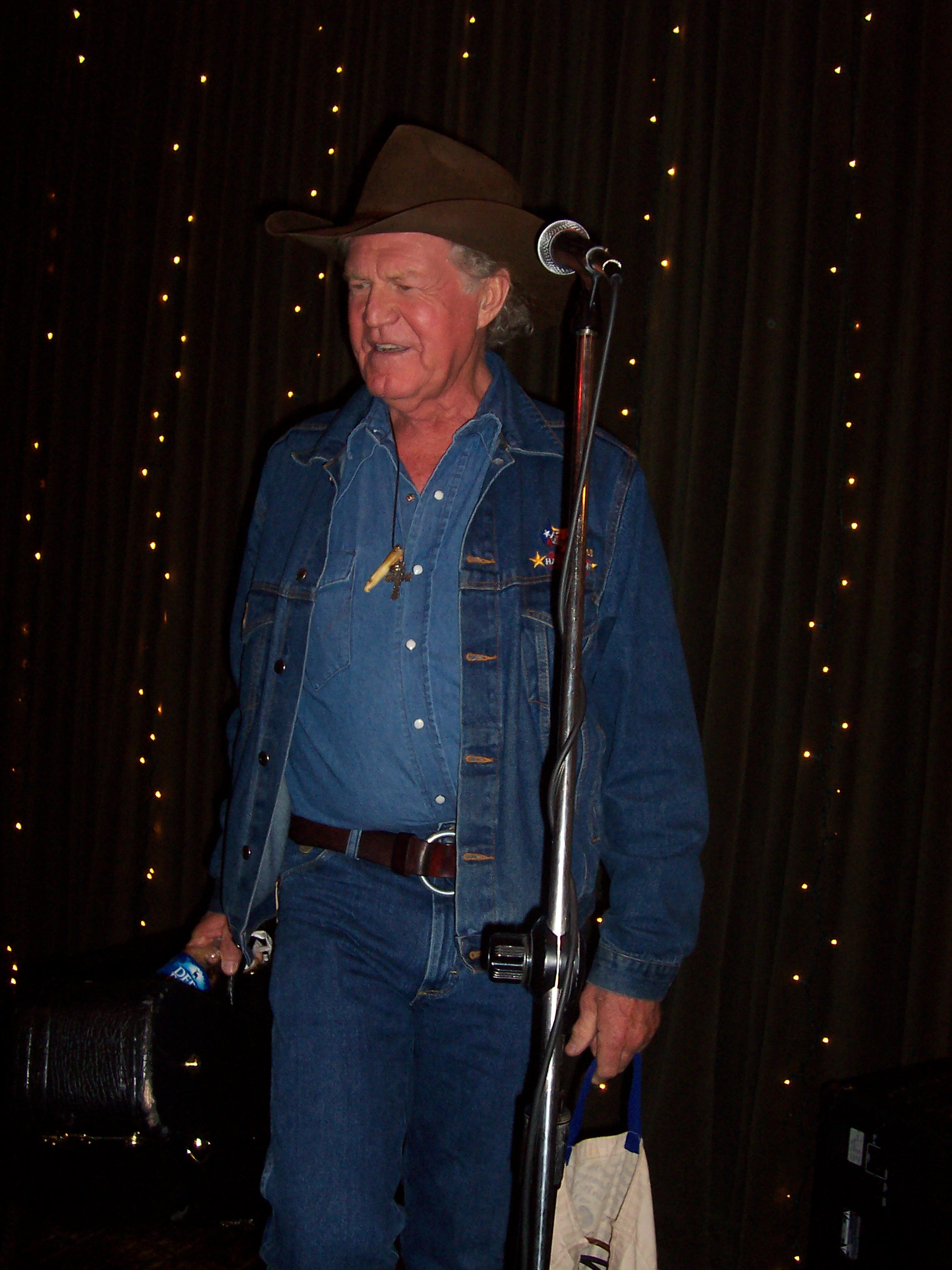 Billy Joe Shaver at Eddie's Attic on 4/20/07